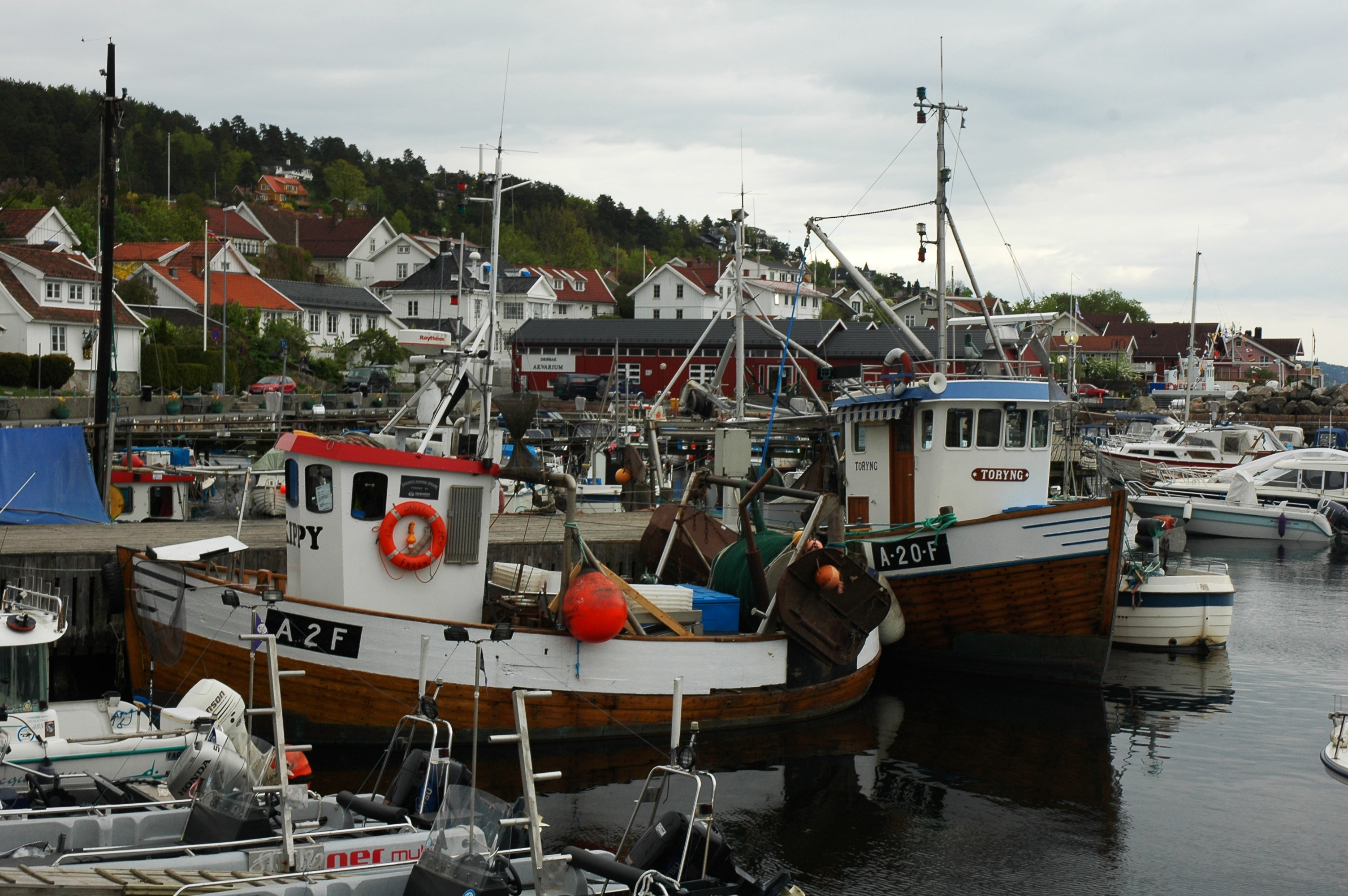 Drøbak harbor in Norway.